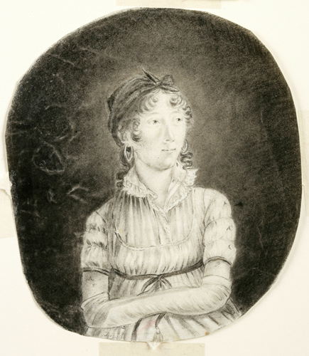 Self-Portrait (c. 1761?-1849), Baroness Anne-Marguerite-Henriette Hyde de Neuville, c. 1805-10. Black ink and wash, charcoal, Conté crayon, and graphite on paper mounted on board. Purchase, New-York Historical Society, 1953.238.